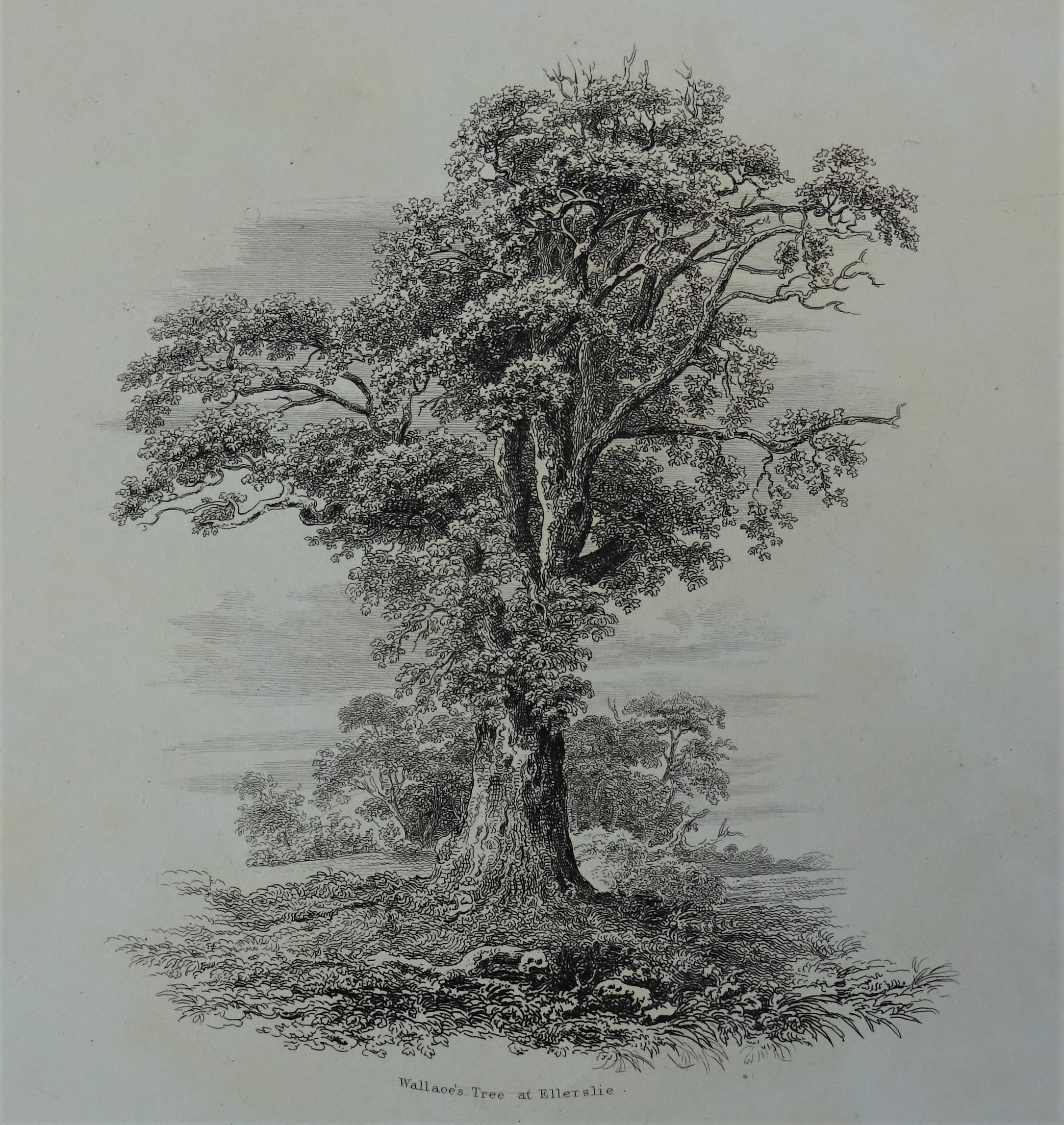 William Wallace's Yew Tree, Elederslie. 1839. He is said t have hidden within it from English soldiers.